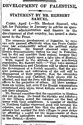 Development Of Palestine. Statement By Mr. Herbert Samuel. The Times, Monday, Apr 05, 1920